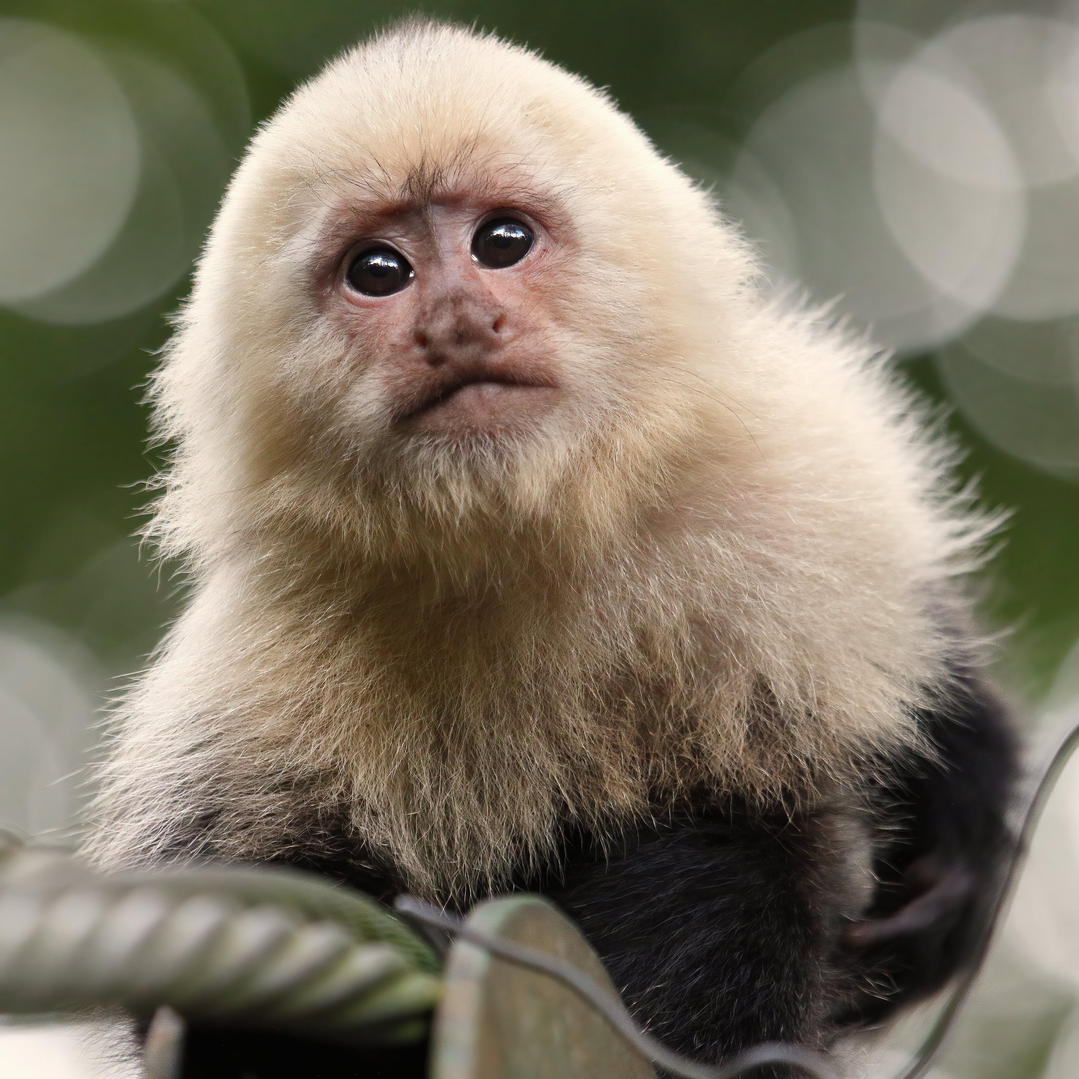 White-headed capuchin, Santa Elena, Costa Rica